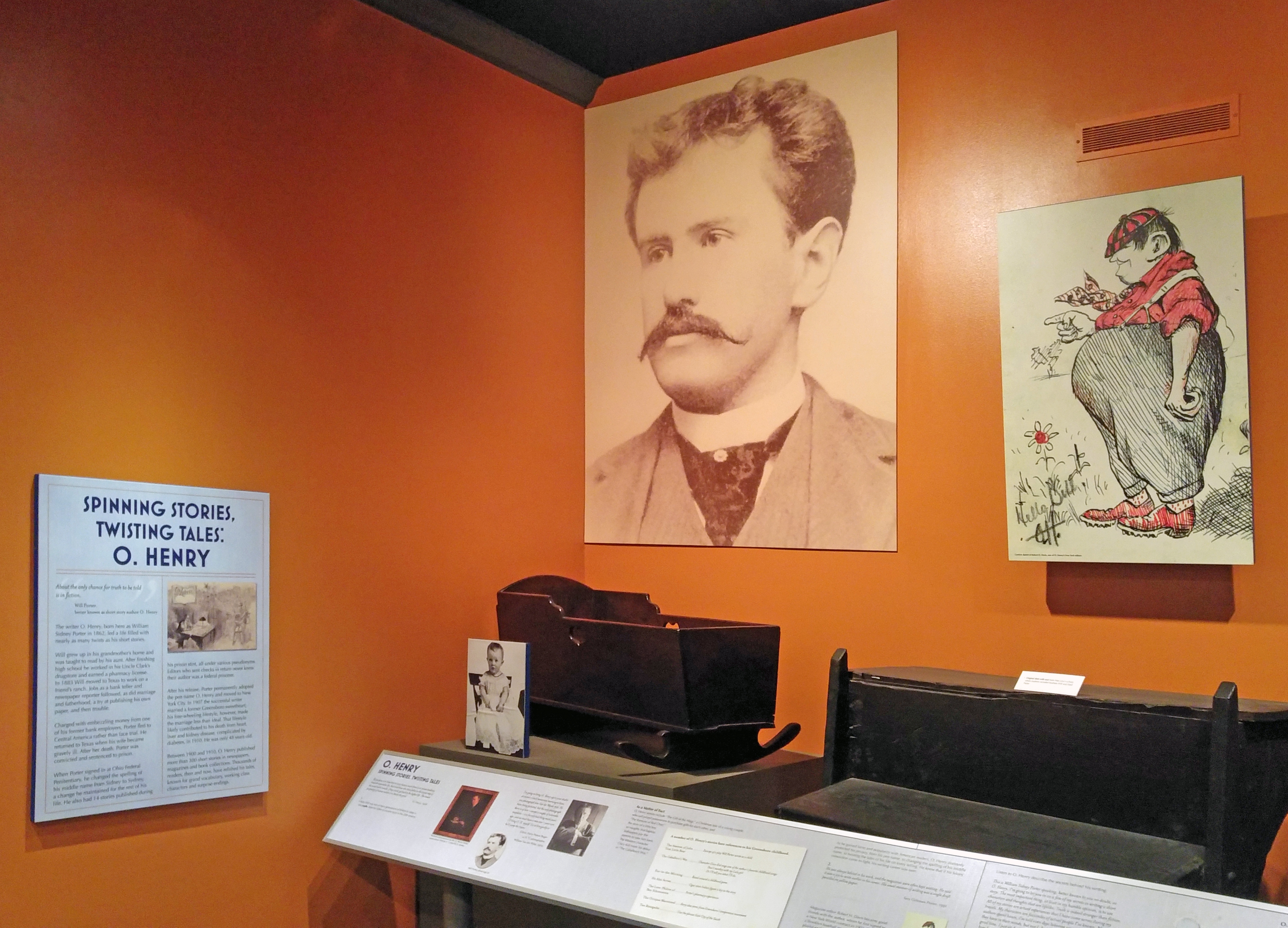 Greensboro Historical Museum